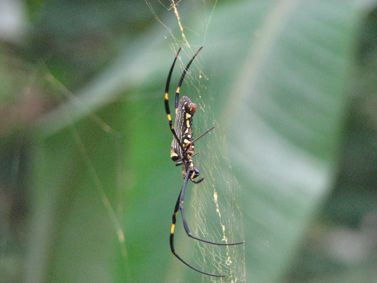 Nephila pilipes jalorensis.